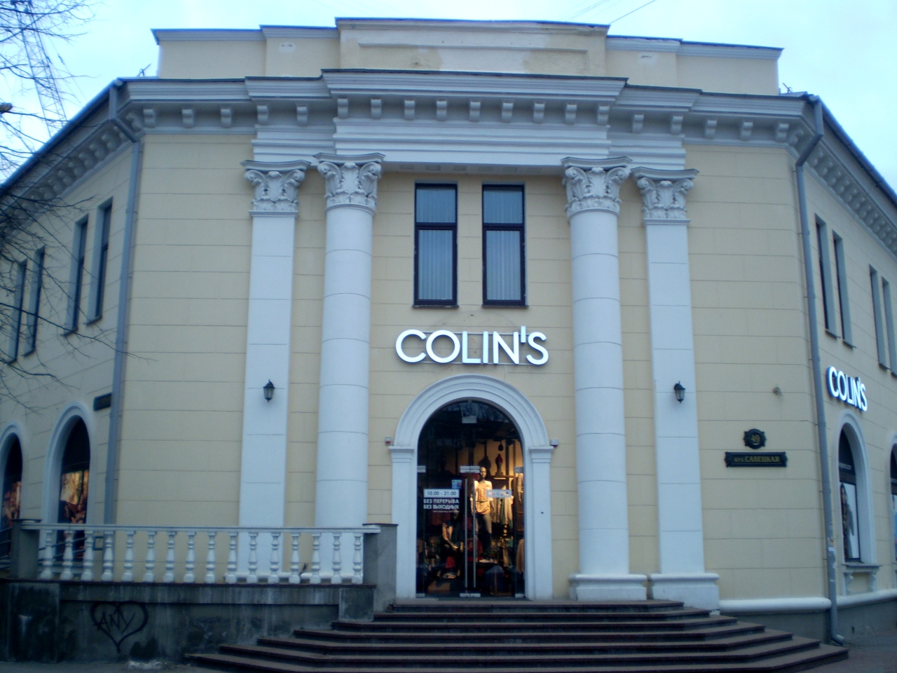 Colin's